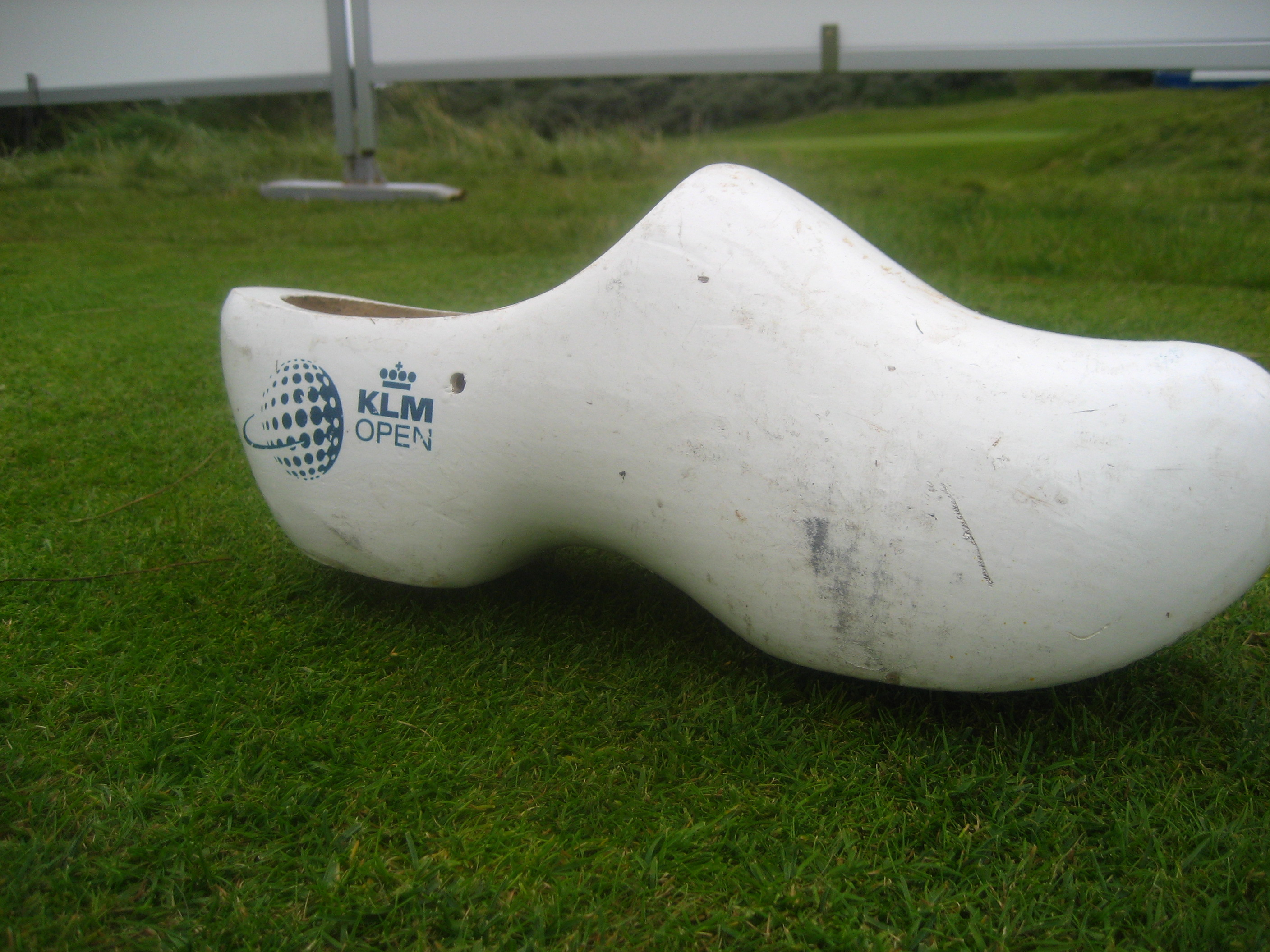 Klomp van het KLM Open